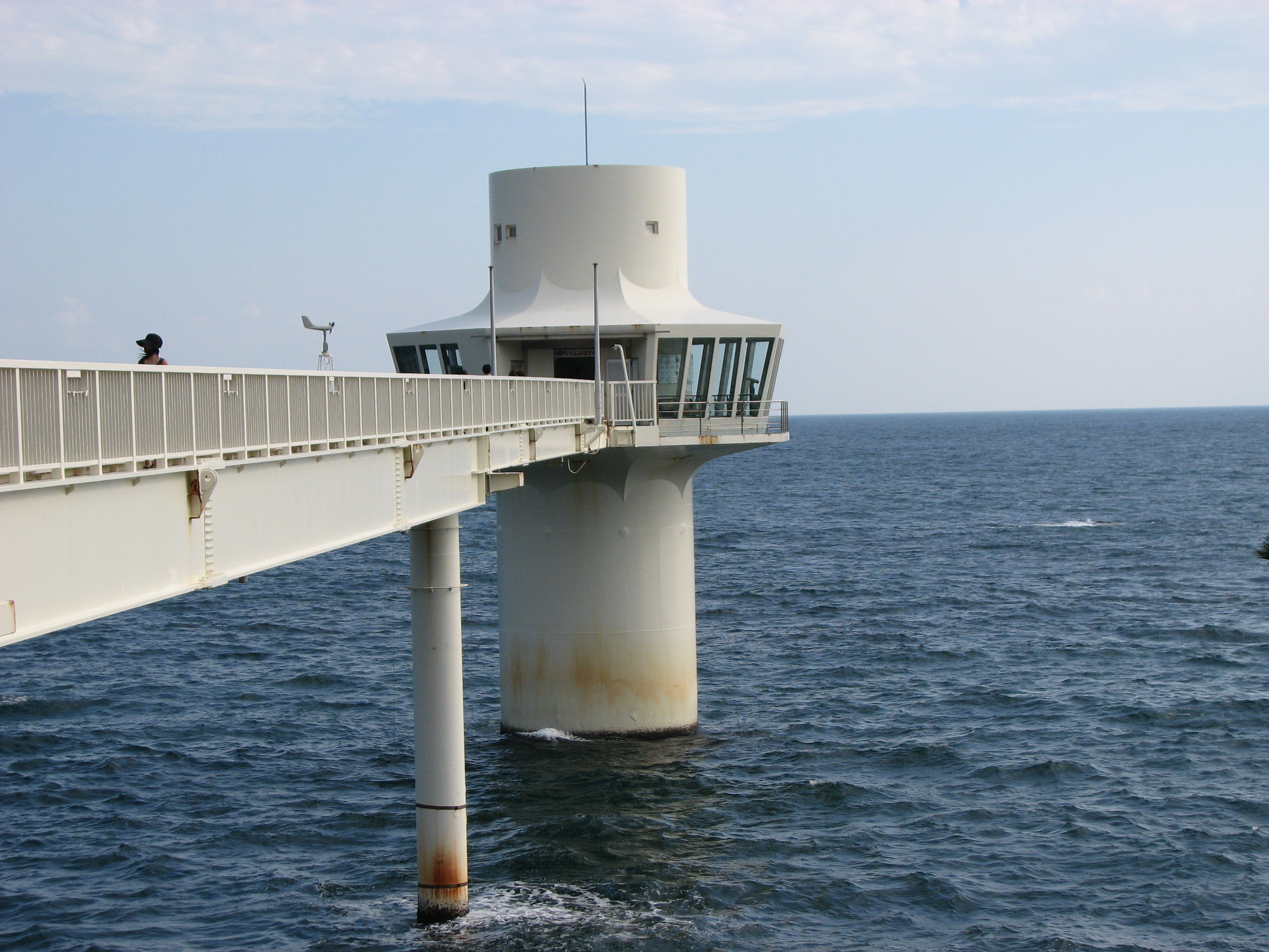 Katsuura Undersea Park observatory